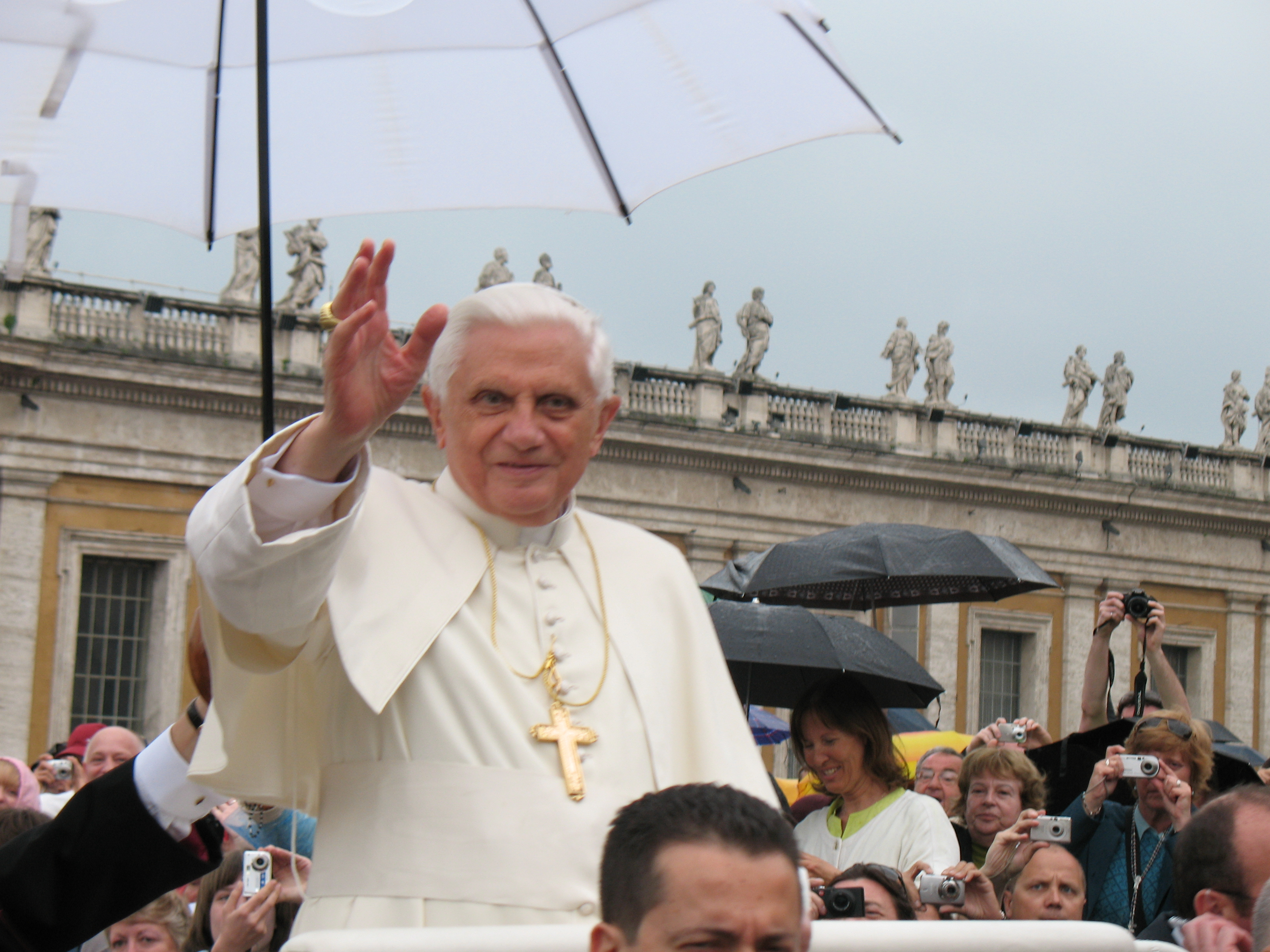 Pope Benedict XVI during general audition